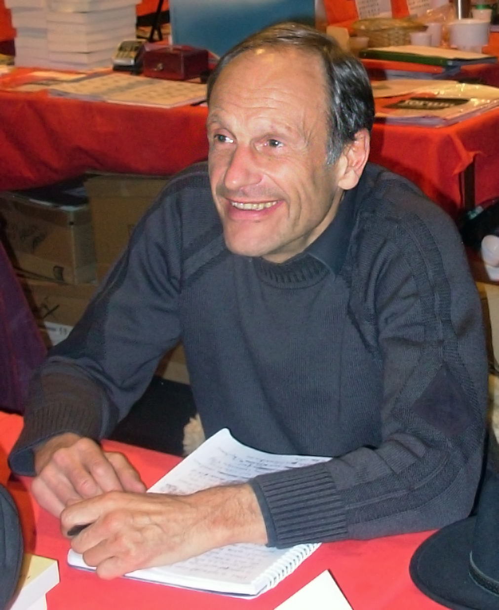 Marc Menant, french journalist and author